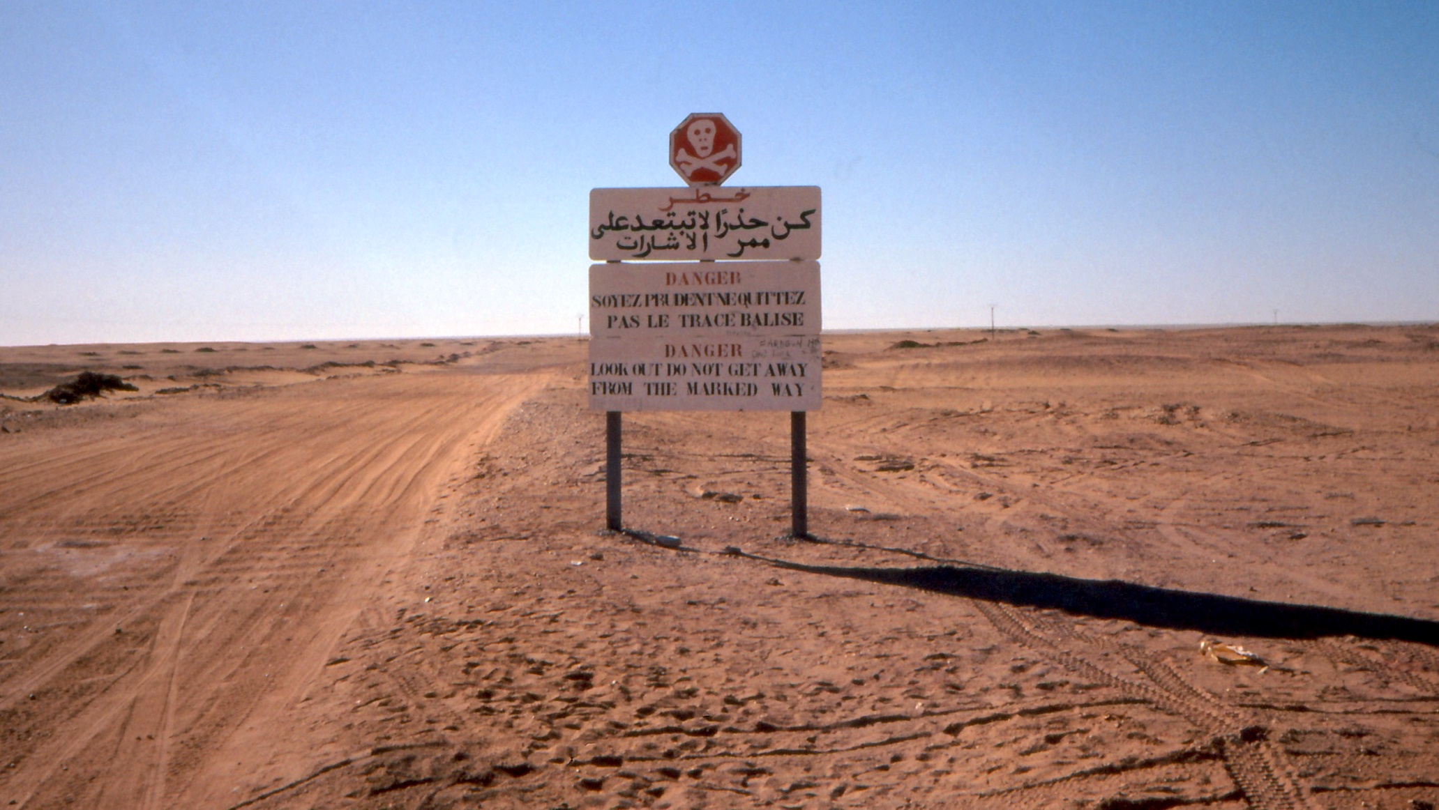 Warning sign at the beginning of the Tanezrouft piste in Algeria